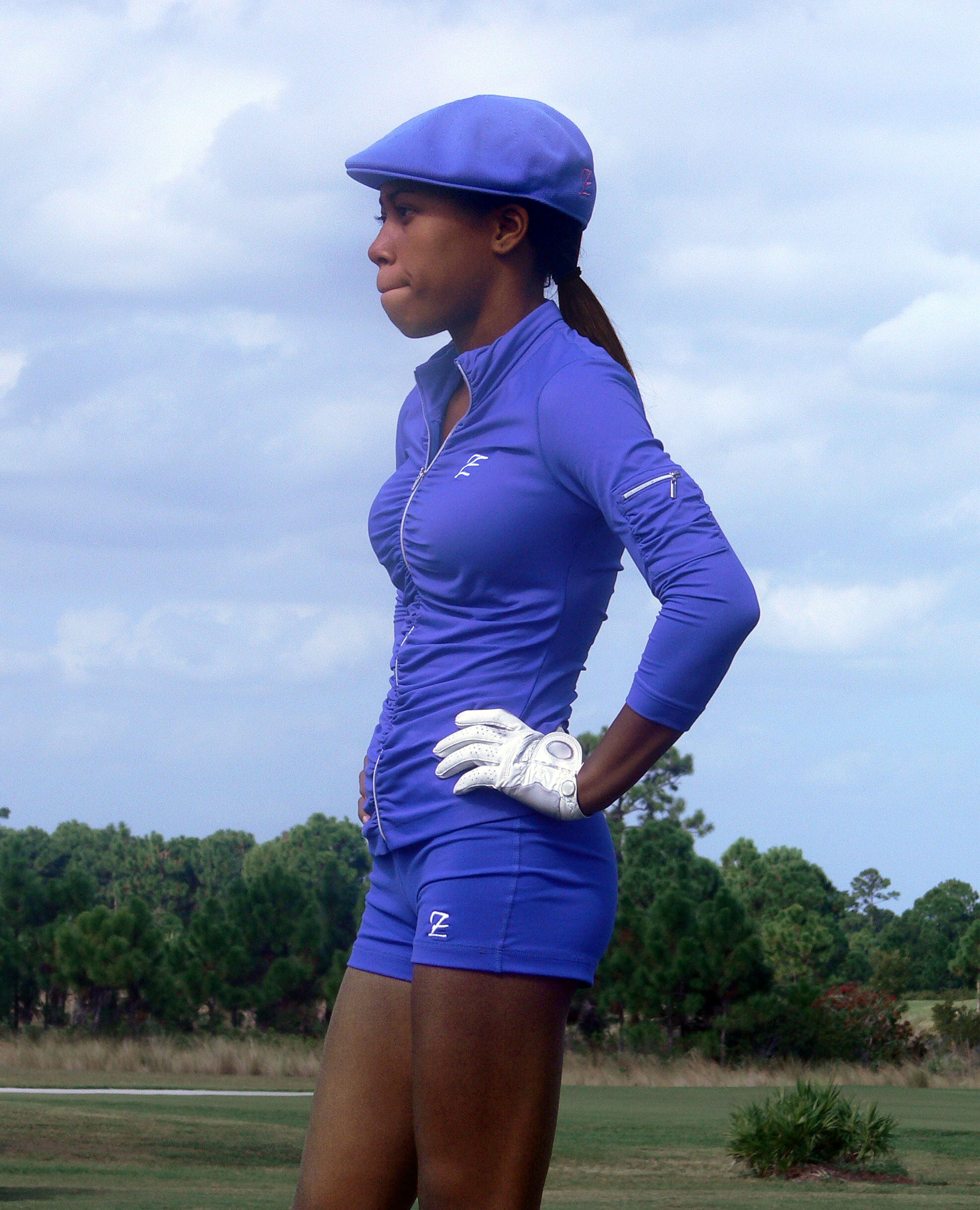 Golfer 'Z' in the Zone - Playing at PGA Village.